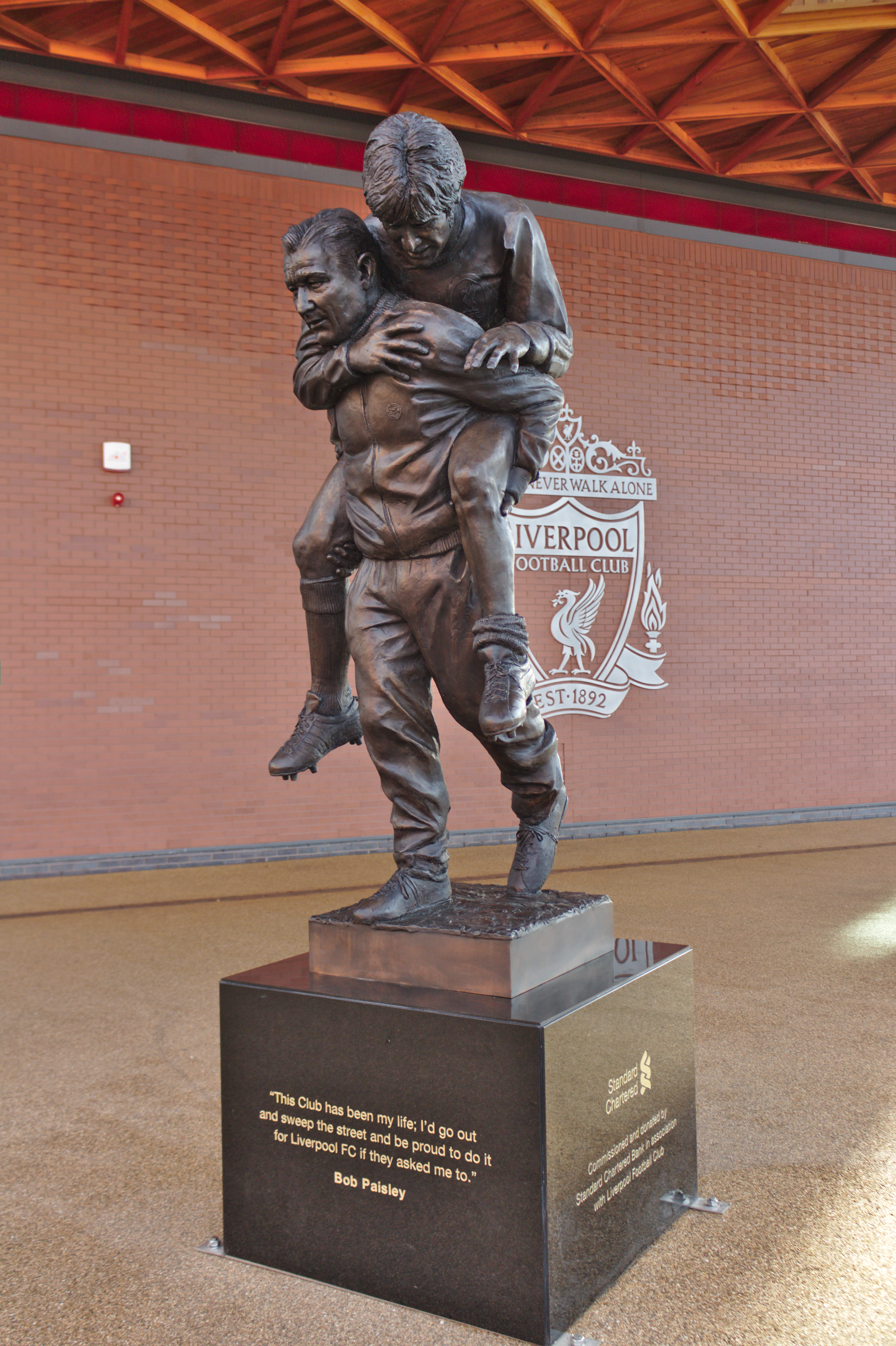 View with Liverpool crest in background